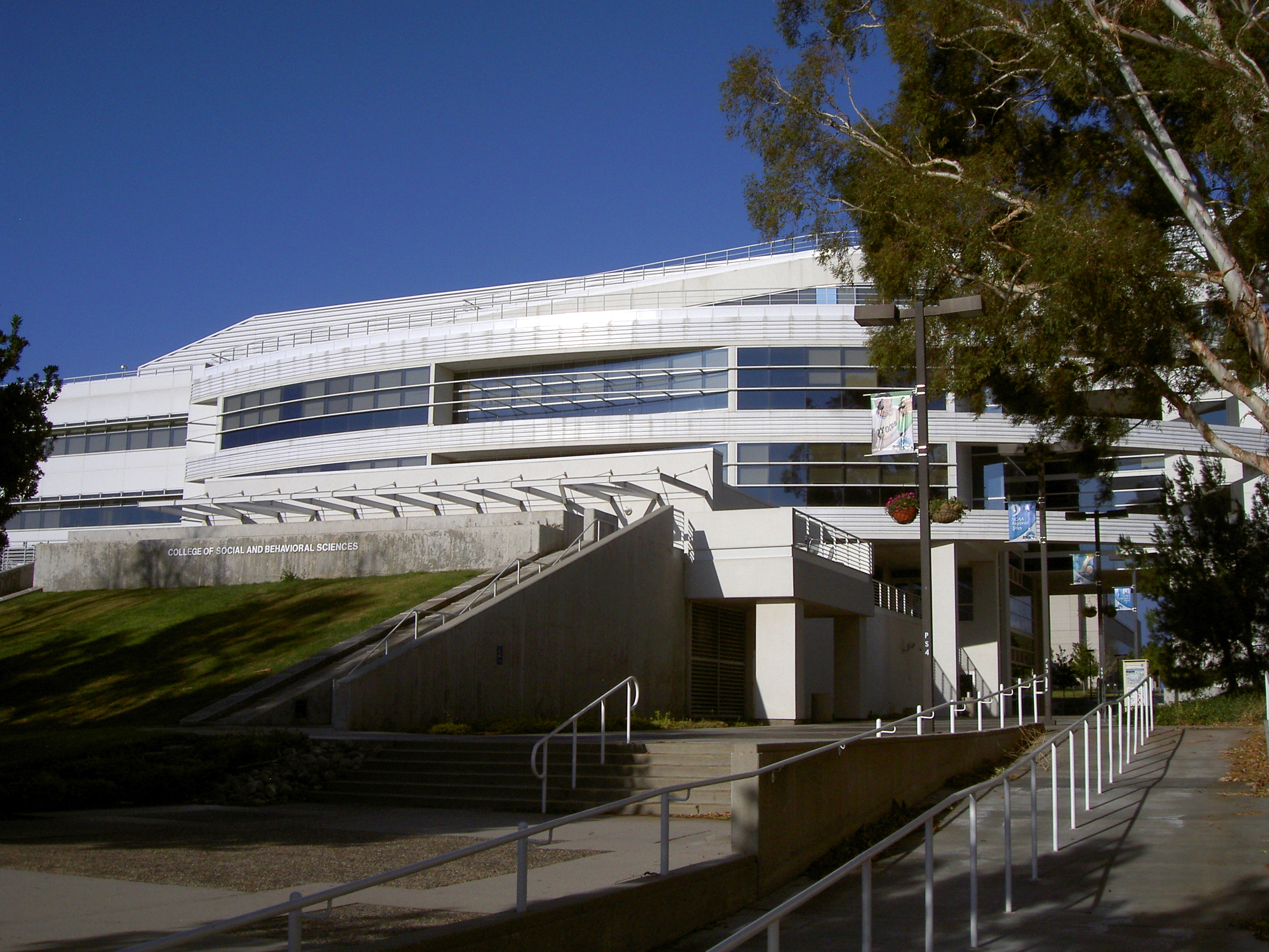 CSUSB